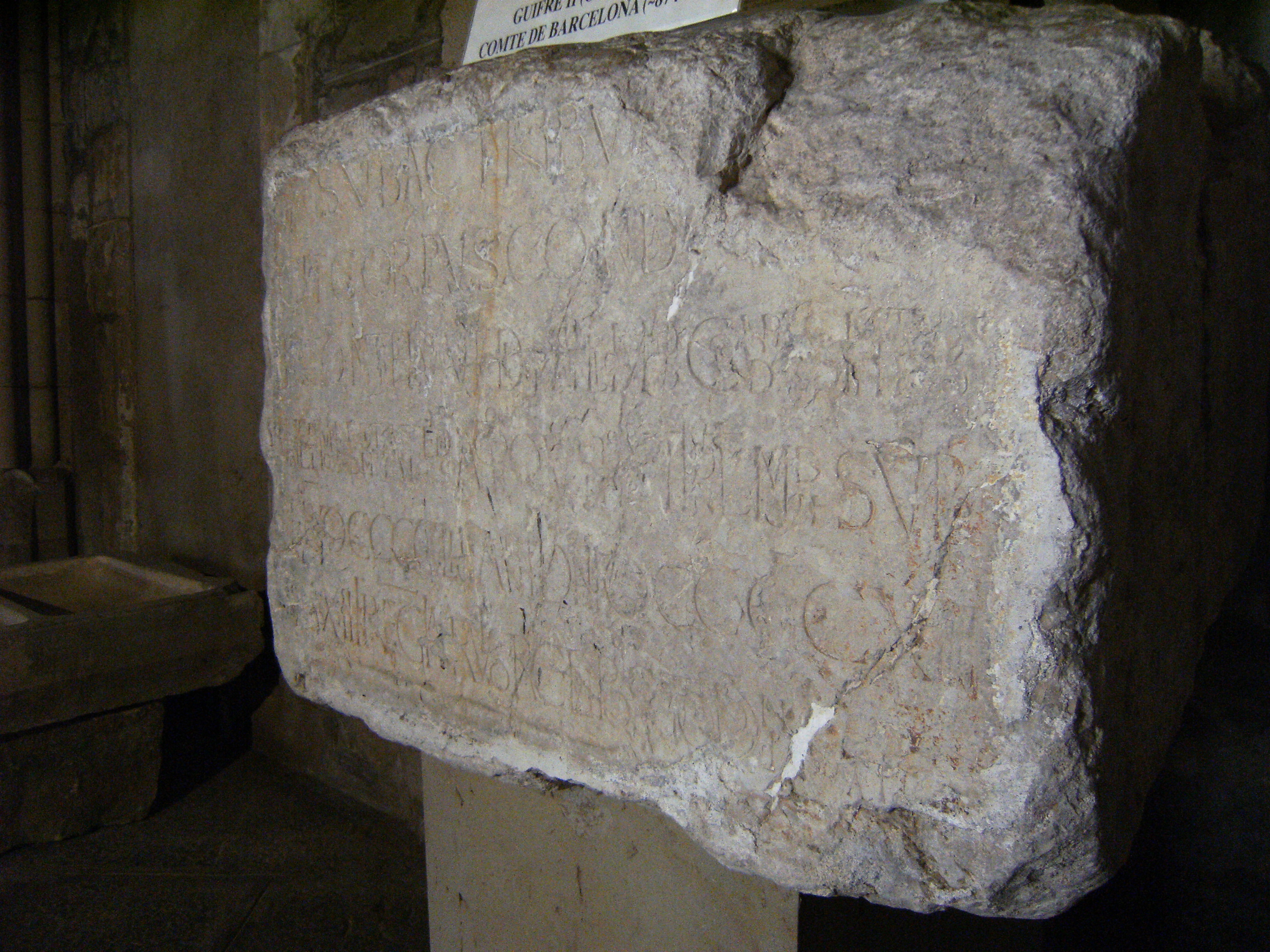 Sant Pau del Camp , Interior , làpida de Guifré-Borrell , 224